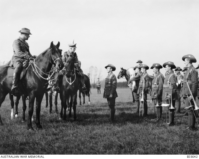 Major General Sir J. J. Talbot Hobbs KCB KCMG VD, General Officer Commanding the 5th Division, inspecting the 59th and 60th Australian Battalion Bands. Identified: General (Gen) H. E. Elliott (1); Gen Talbot Hobbs (2); Sergeant (Sgt) J. Cleaver (3); unidentified (4); 2774 Private (Pte) Robert Whitlam (5); Pte C. A. Webb (6); 2457 Pte N. Raymer (7); Pte N. Johnston (8); 2898 Lance Corporal Thomas N. Gadd (9); Pte H. J. Ried (10); Pte N. Brown (11); Pte N. D. Bain (12). See E03642K for position of those named in this caption.